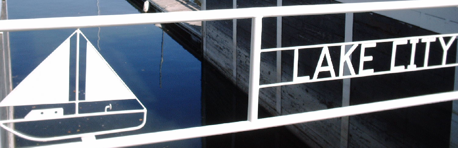 Photo I took 2006-09-30 of a sign at the marina in Lake City, Minnesota. CC & GFDL.